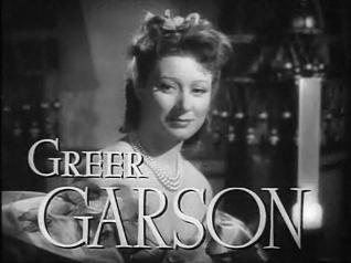 Cropped screenshot of Greer Garson from the trailer for the film Pride and Prejudice